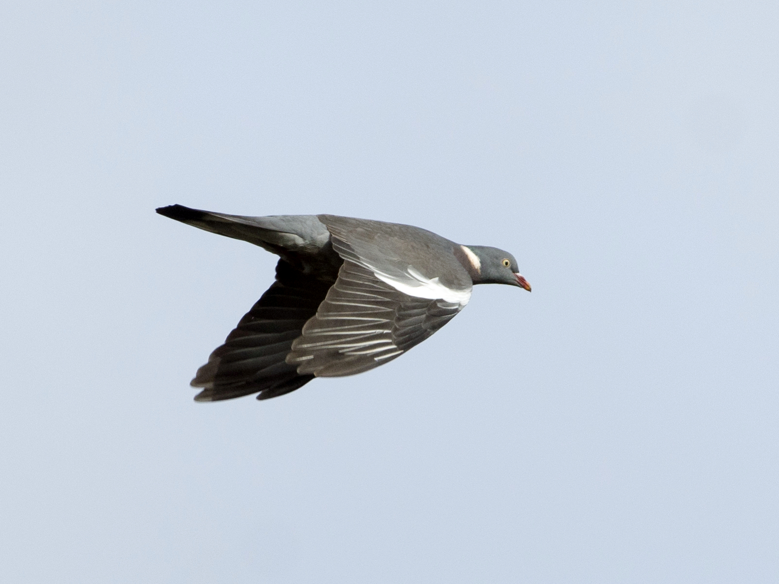 Azores Wood Pigeon Columba palumbus azorica, Terceira, Azores